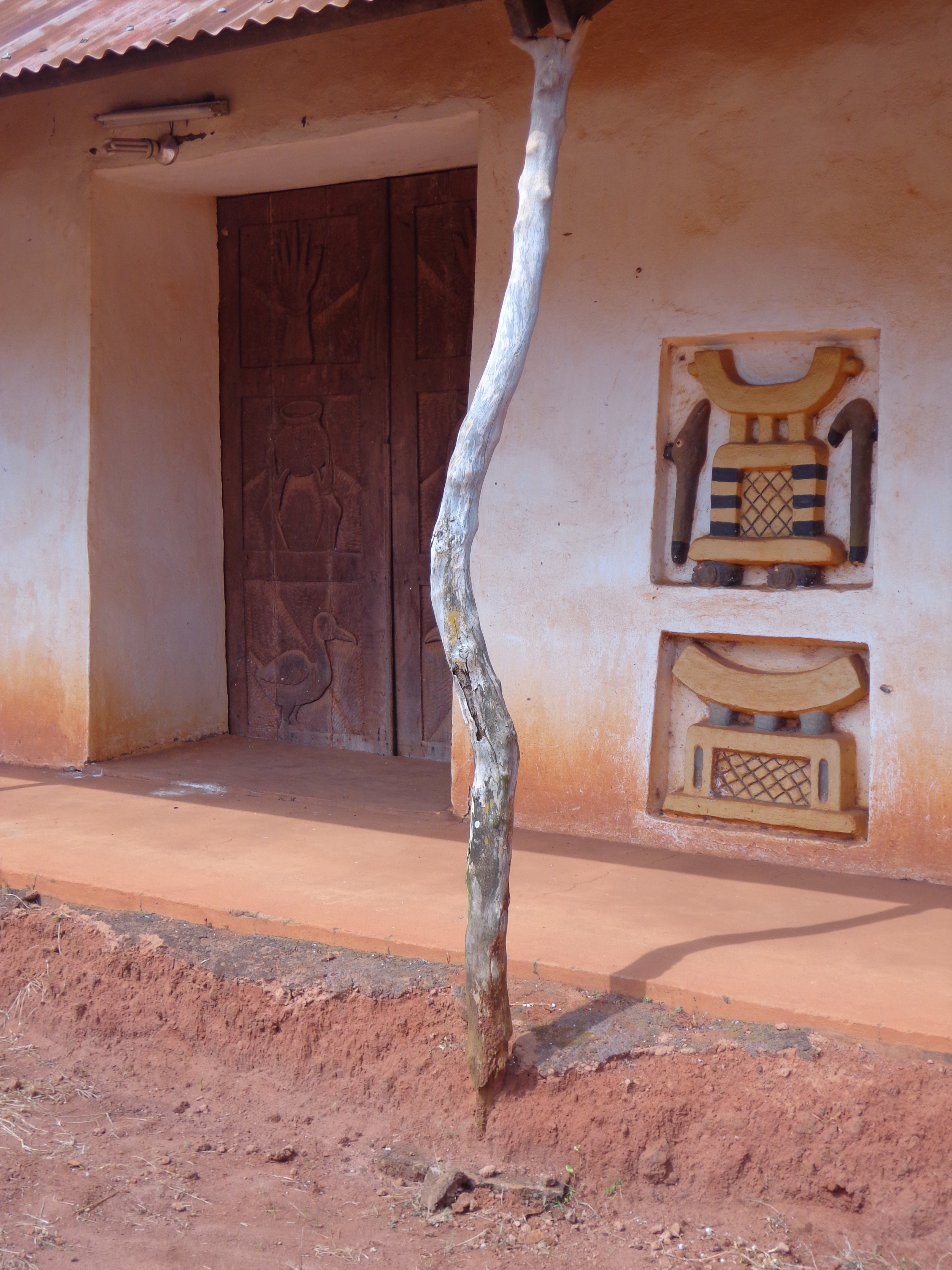 Royal Palaces of Abomey